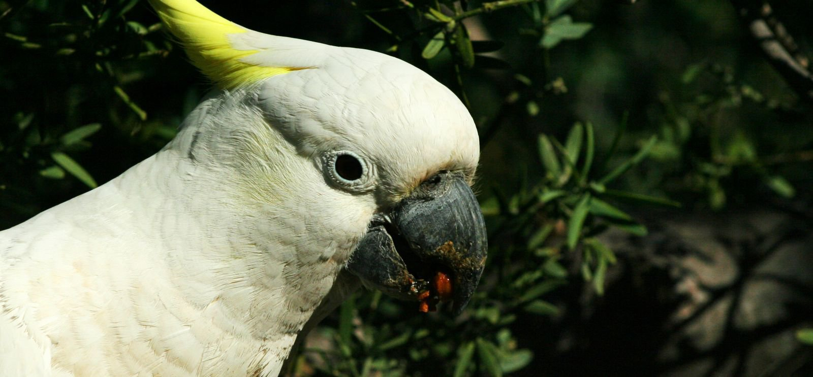 A sulphur-crested cockatoo Cacatua galerita